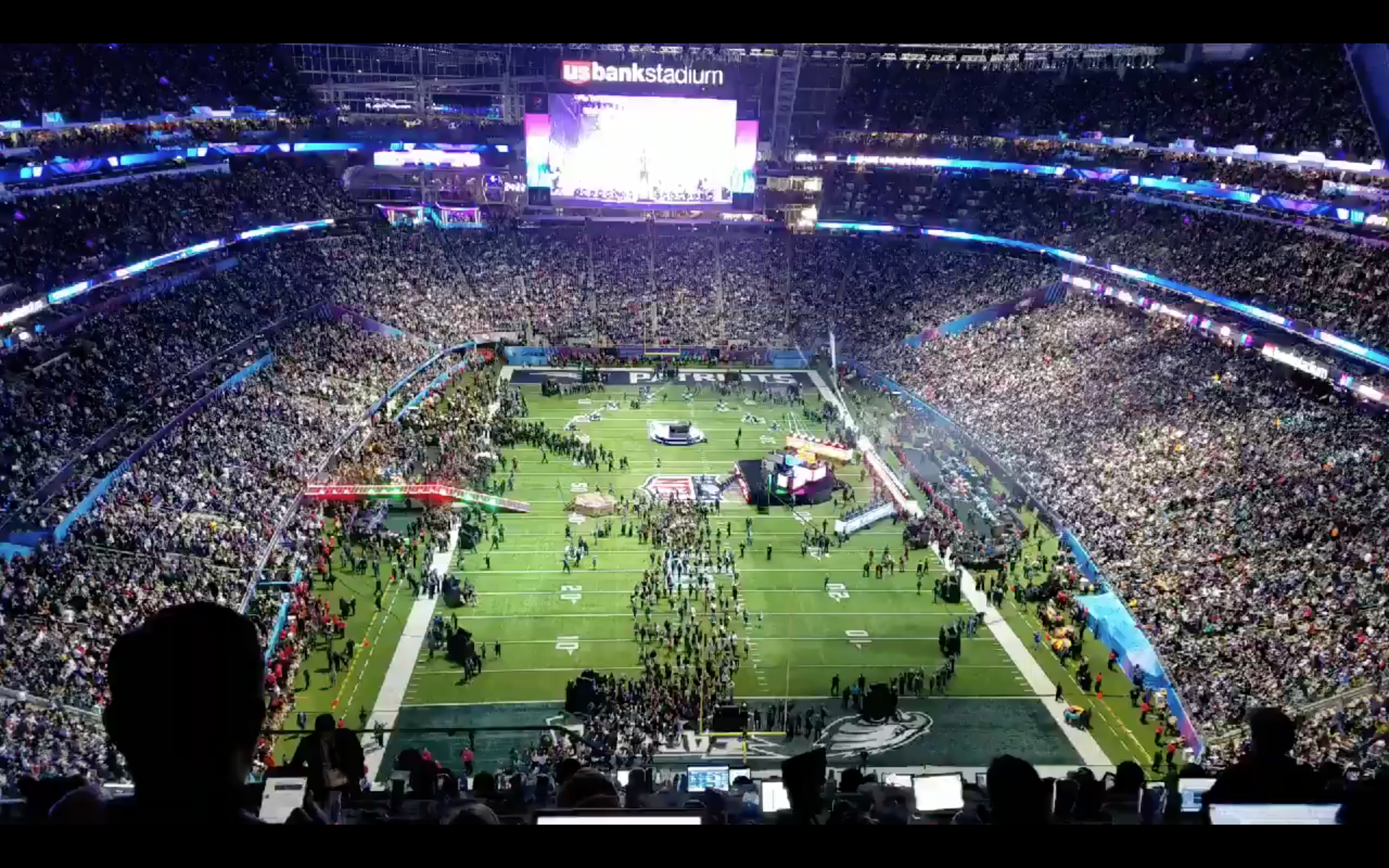 Field being set-up for Super Bowl LII halftime show